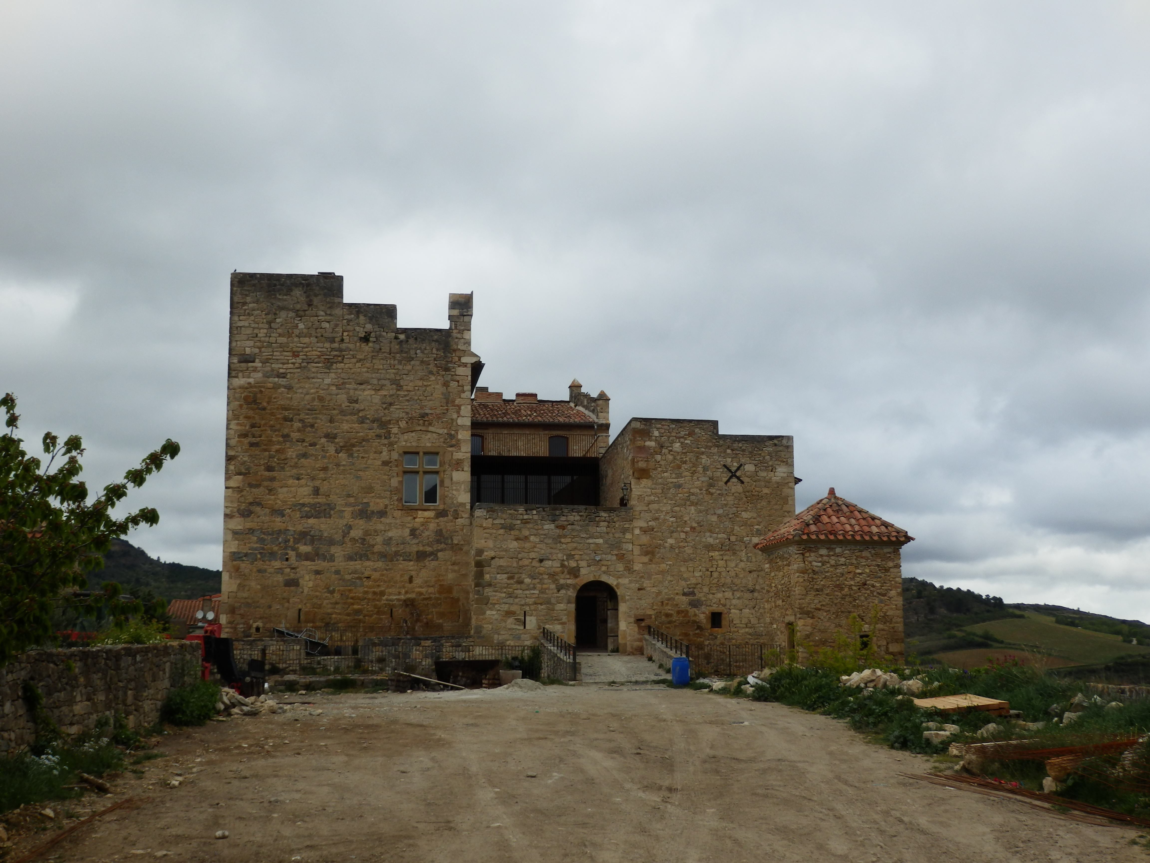 Castle of Roquetaillade, Aude, France